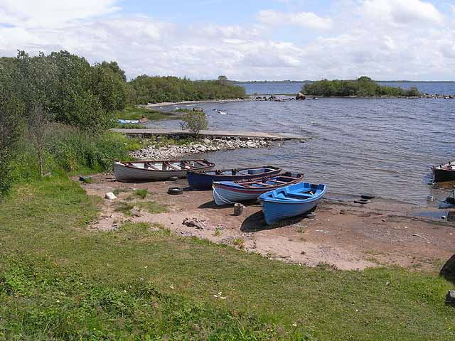 Small bay on Lough Mask A picnic site and jetty give access to the lough at this point to the north of Toormakeady.